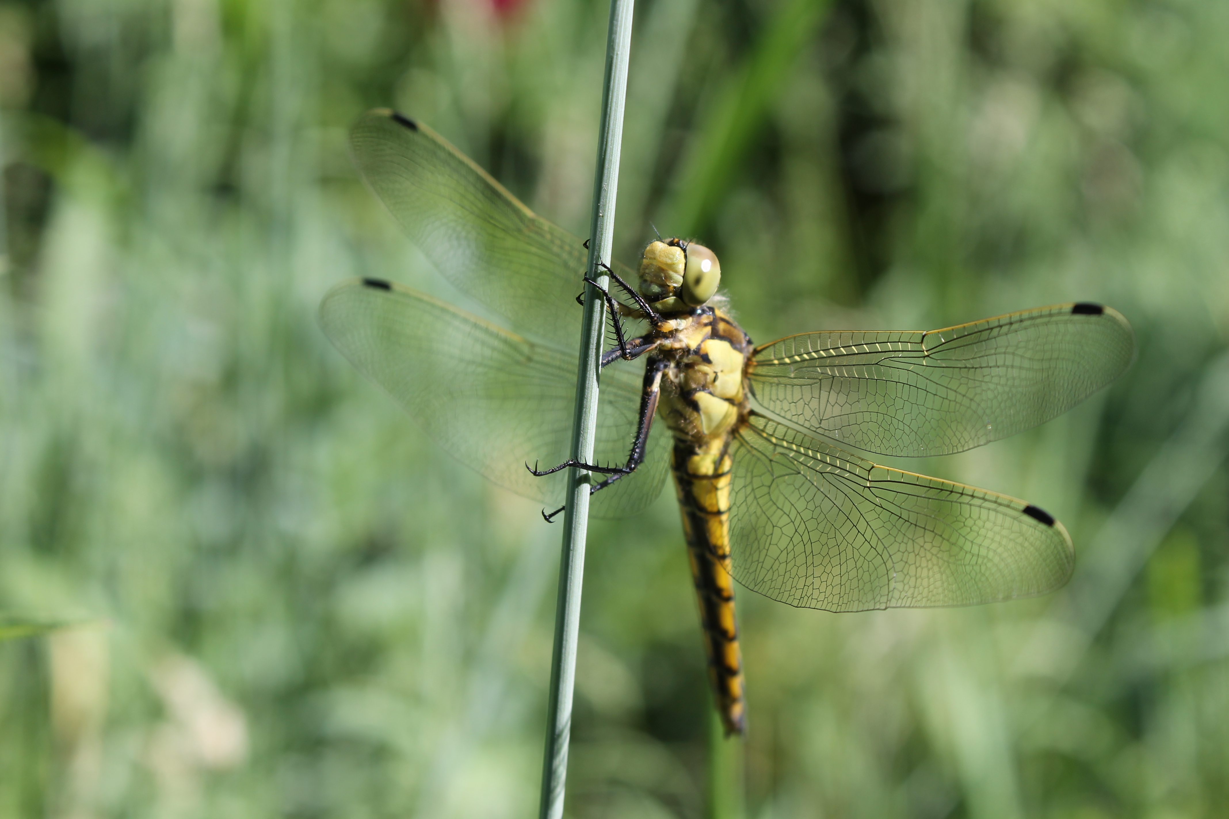 Kingdom: Animalia. Phylum:Arthropoda. Class:Insecta. Order:Odonata. Family:Gomphidae. Genus:Ophiogomphus. Species: O. cecilia. Binomial name: Ophiogomphus cecilia (Fourcroy, 1785).